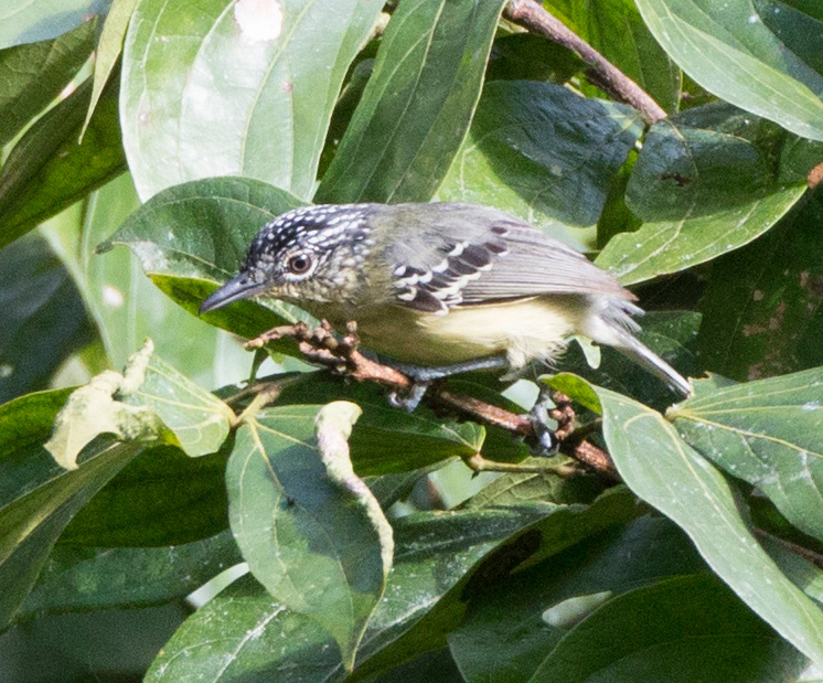 Yellow-breasted-antwren, Copalinga Ecolodge near Zamora, Ecuador